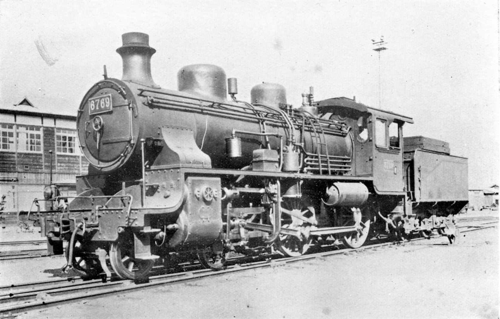 Picture of JGR's 6760 type steam locomotive